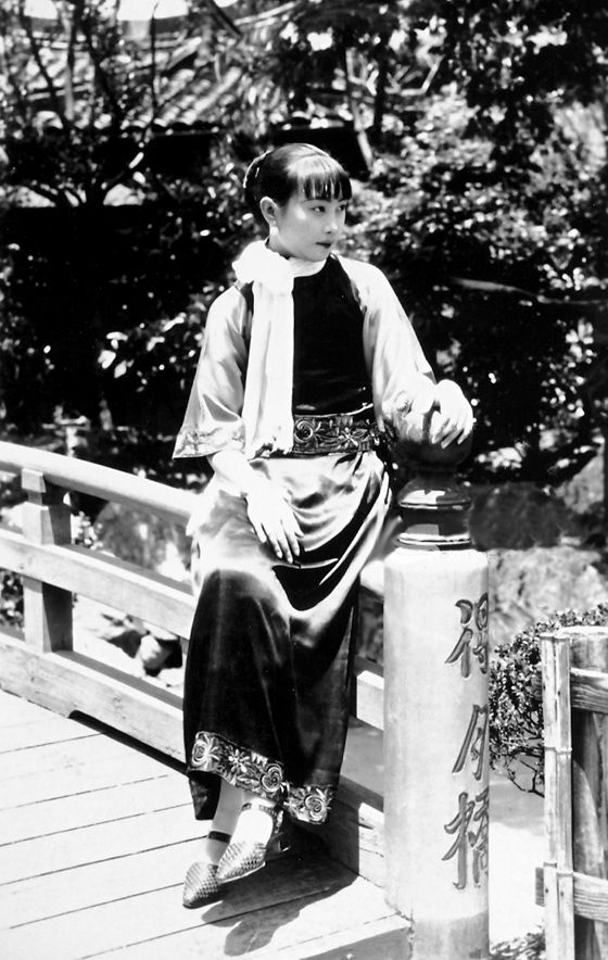 Photograph of Hu Die, Chinese actress